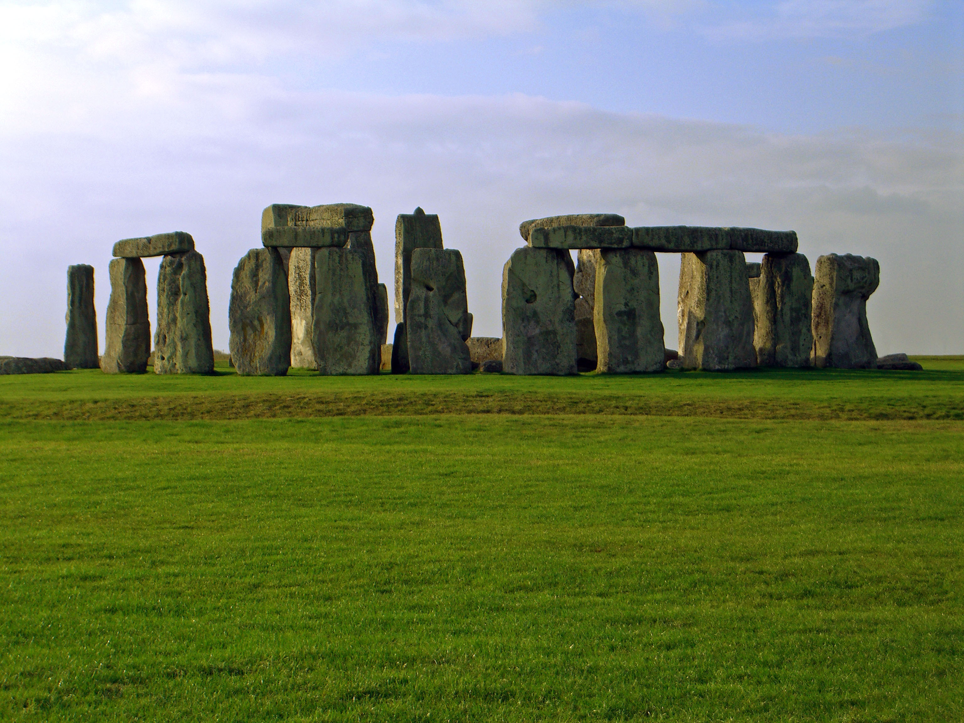 Photo that I took on November 26, 2005, during a walking tour of Stonehenge.